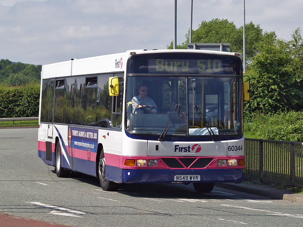 First Manchester Limited 60344 N549 WVR, a Volvo B10B-58 built 1996 with a Wright ‘Endurance’ DP50F body on Bolton Street in Bury with the 14:55 Bolton Bus Station to Bury Interchange via Ainsworth and Walshaw 510 service. Monday 9th June 2008